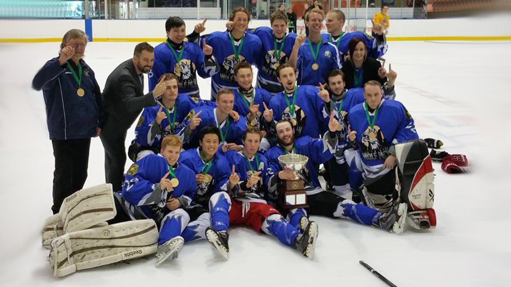 Sydney Wolf Pack AJIHL Championship team at the Medibank Icehouse March 1st 2015. Other information Sydney Wolf Pack AJIHL Championship team photo taken immediately after the game on March 1 2015. Using a Canon 70D, image extracted from my video footage.